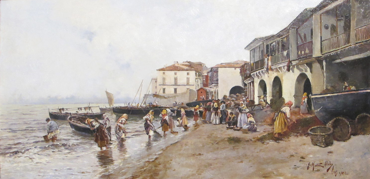 Gathering Seaweed on the Banks of the Berbés, Vigo Oil on canvas, 40 x 76 cm, Inv. CTB.1994.46 Carmen Thyssen Museum Native nameMuseo Carmen Thyssen MálagaLocationMálaga, (Spain)Coordinates36° 43′ 17″ N, 4° 25′ 22″ W Established2011Web page control : Q5043601 VIAF: 230371067 LCCN: no2012034269 OSM: 5583647 GND: 16335044-9 SUDOC: 163469776 WorldCat institution QS:P195,Q5043601